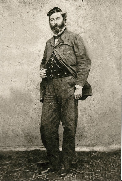 Sandor Alexander Svoboda photography